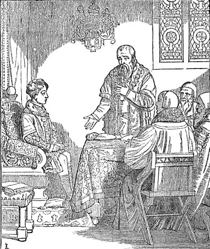 Edward Seymour, Duke of Somerset and Lord Protector of England, accusing his brother before King Edward VI.